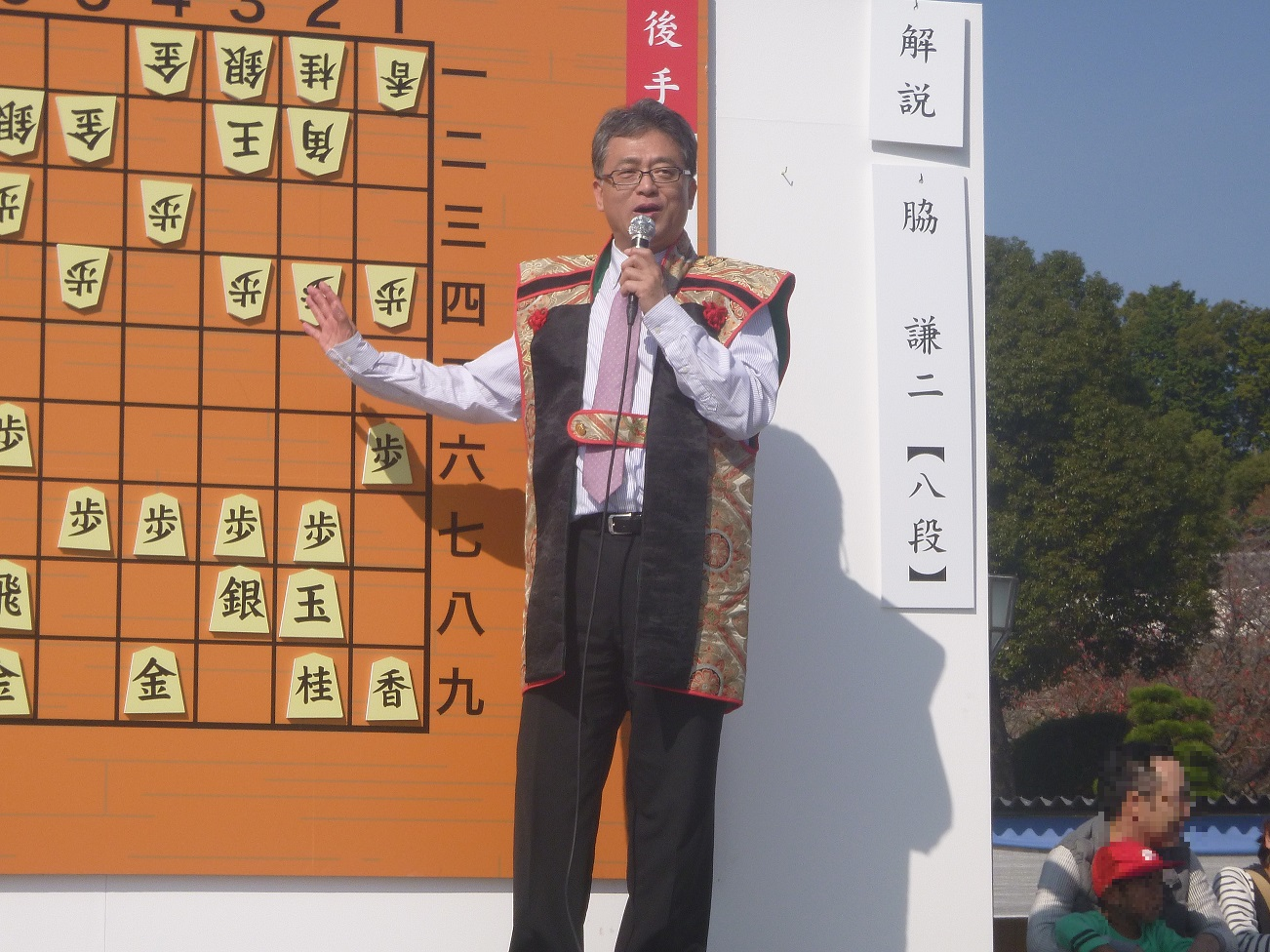 Japanese shogi player Kenji Waki commenting about the exhibition match of human shogi in Himeji, Japan.